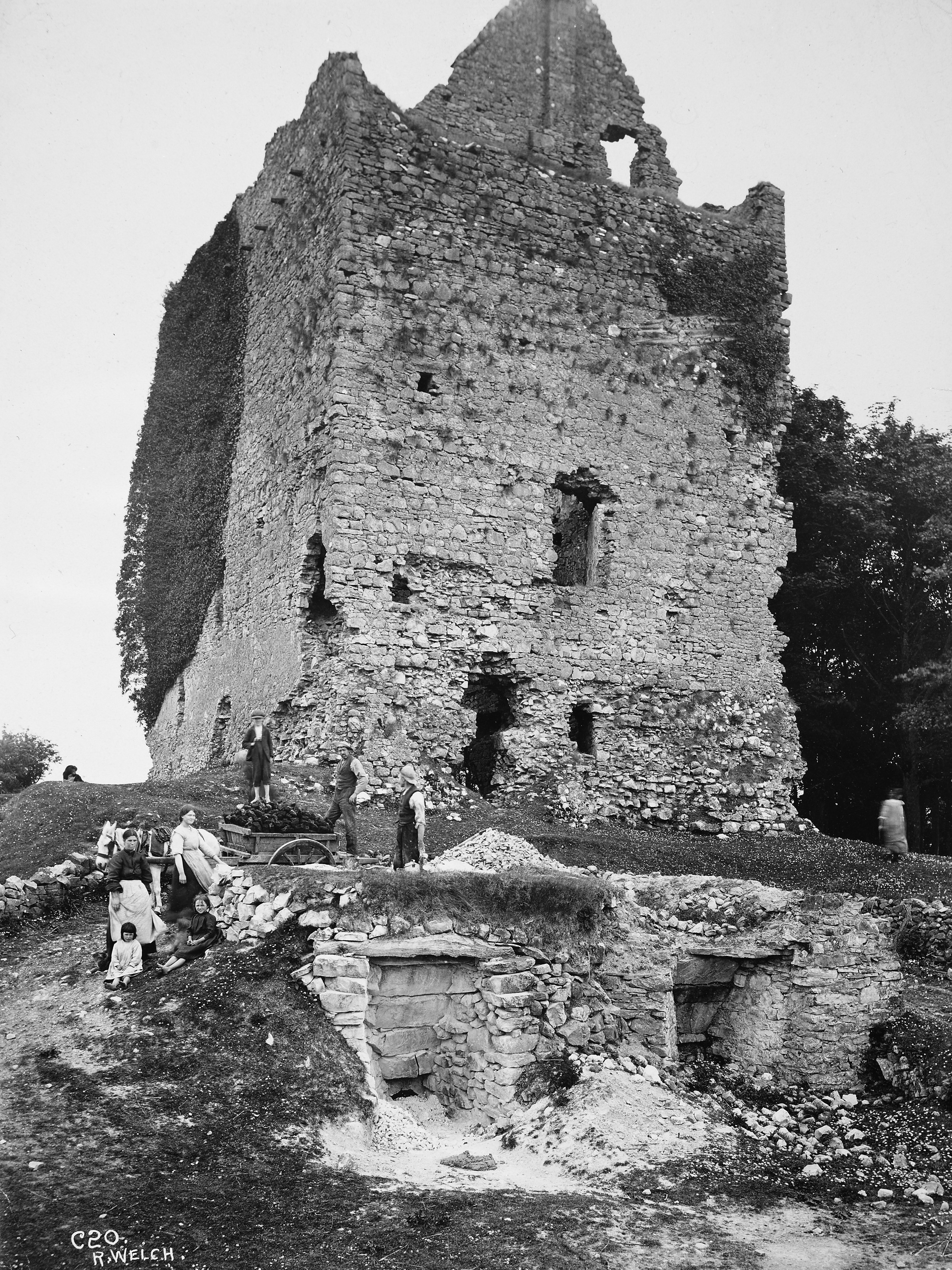 This is part of our recently digitised Congested Districts Board Photographic Collection and was taken by Robert Welch. We recently came across Mr Welch and his Permanent Patinotype Irish Views... The structures below the castle are lime kilns apparently. Photographer: Robert John Welch Date: Circa 1906-1914?? NLI Ref.: CDB18